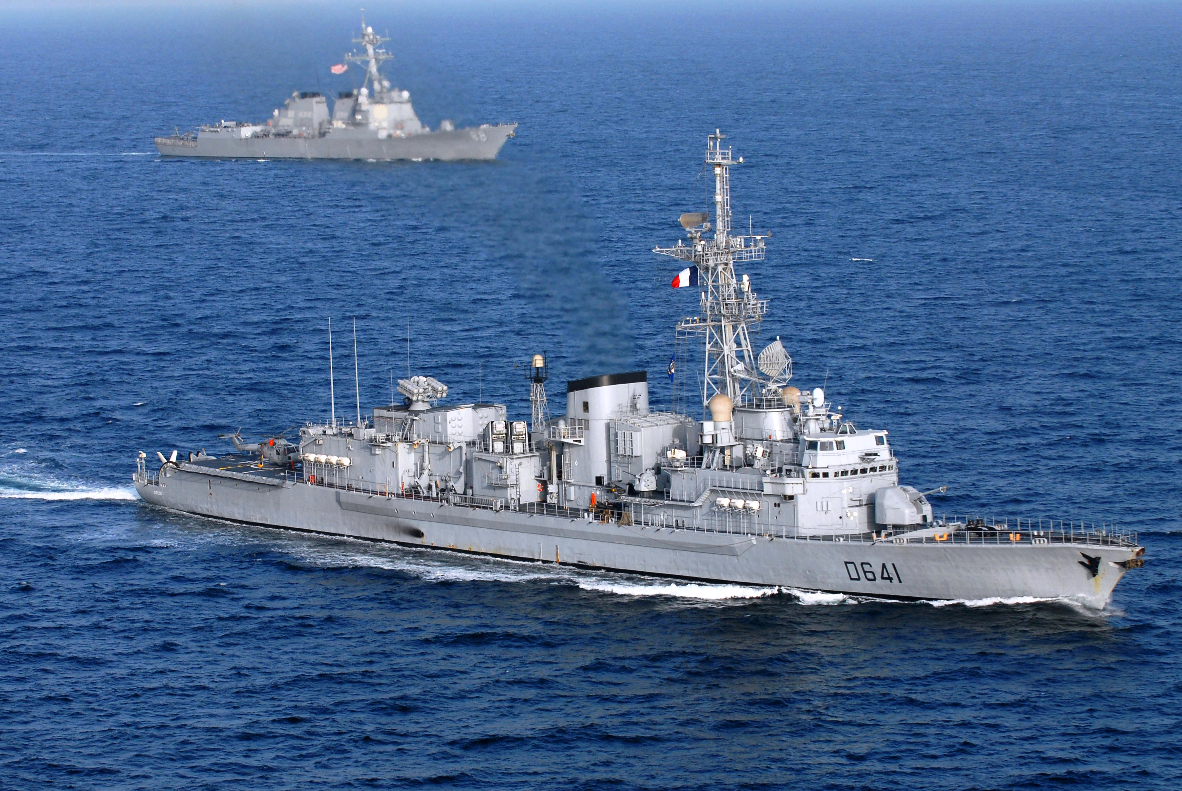 The French destroyer Dupleix (D641) (front) and the U.S. Navy guided missile destroyer USS Preble (DDG-88) steam alongside one another during a photo exercise in the Arabian Sea 25 March 2007.